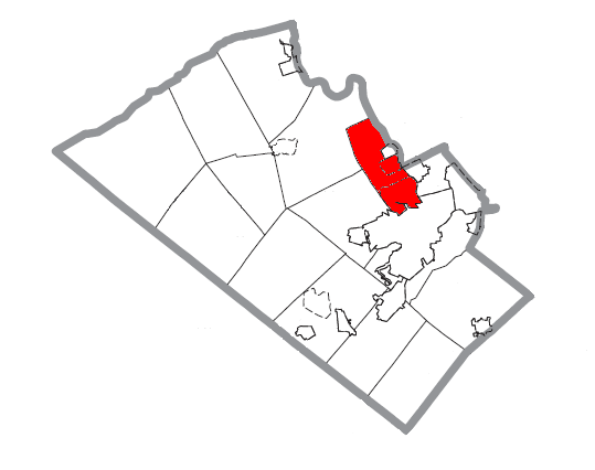 A map of Lehigh County showing Whitehall Township, Pennsylvania highlighted on the map.